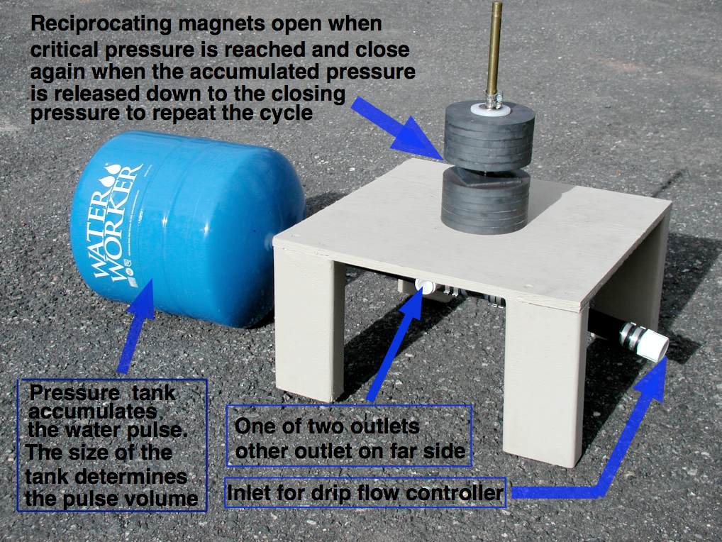 Description of how the pulse drip valve works